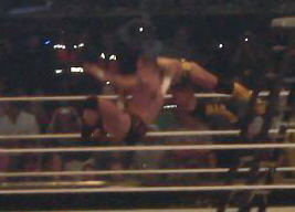 Randy Orton performing his RKO finisher on CM Punk during the Money in the Bank ladder match at WrestleMania 23 (Cropped from flickr)